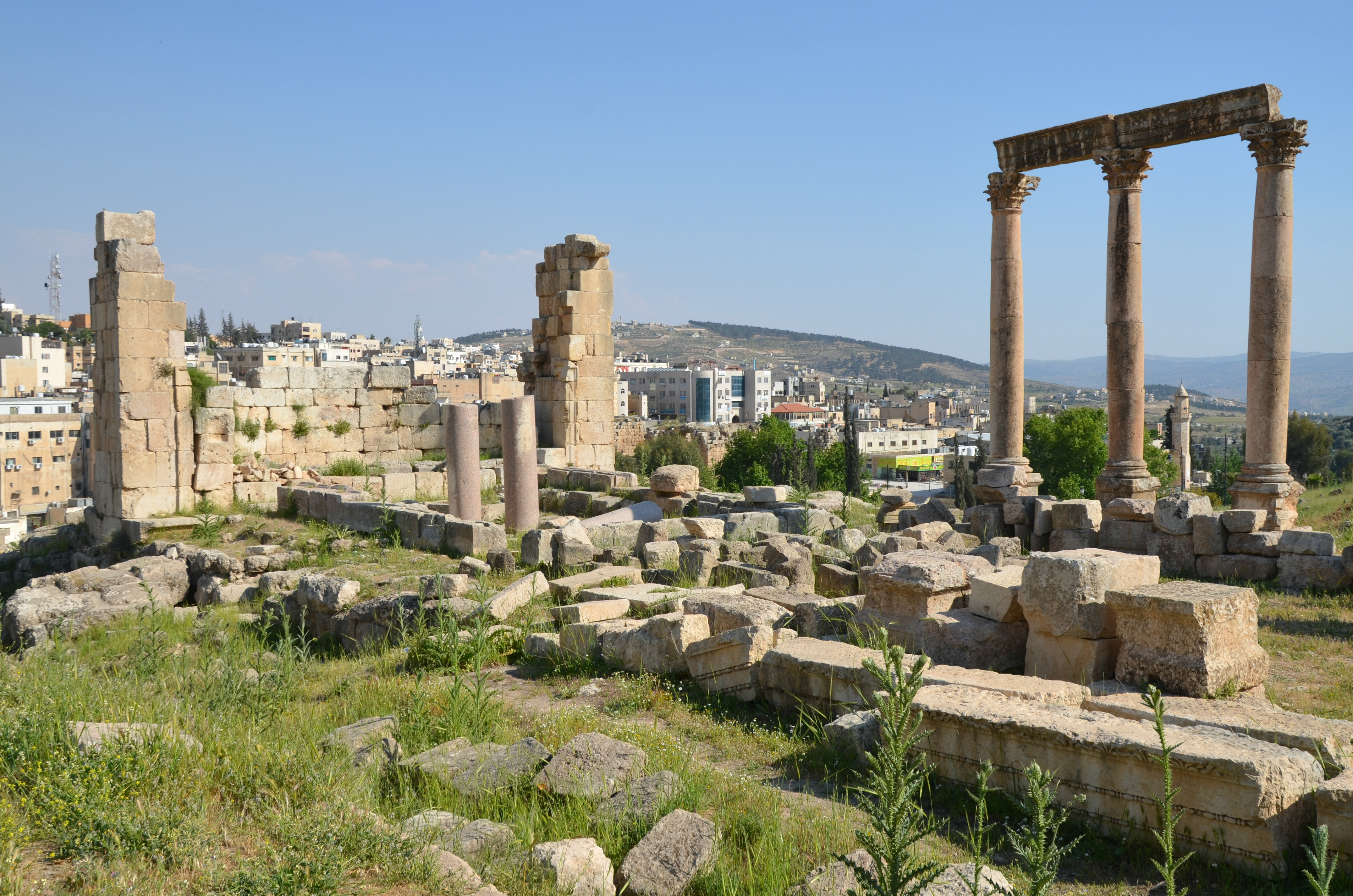 The Propylaeum Church, built in the 6th century AD to the east of the Cardo near the propylaea of the Temple of Artemis, Gerasa, Jordan